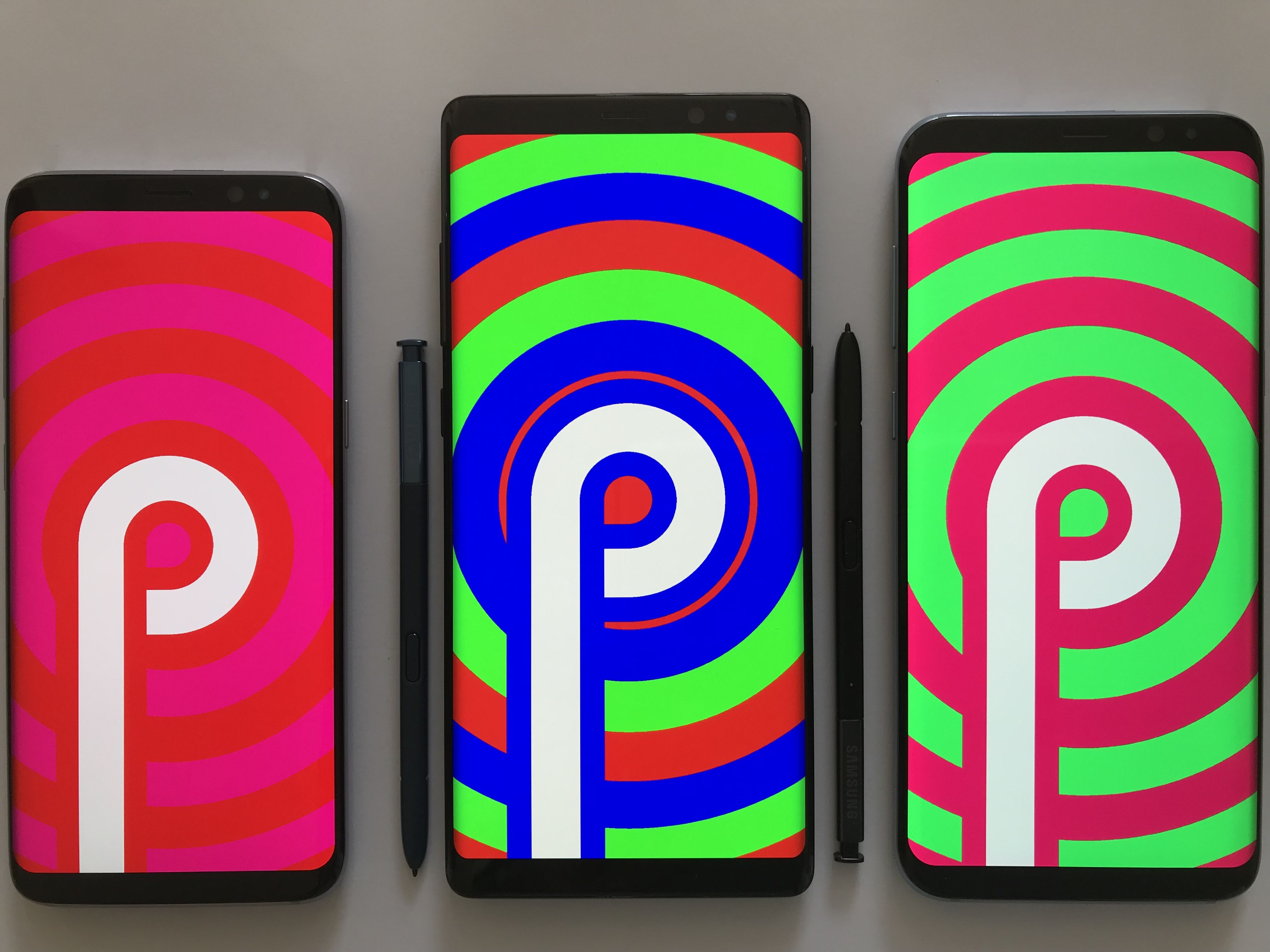 Android P Easter Egg